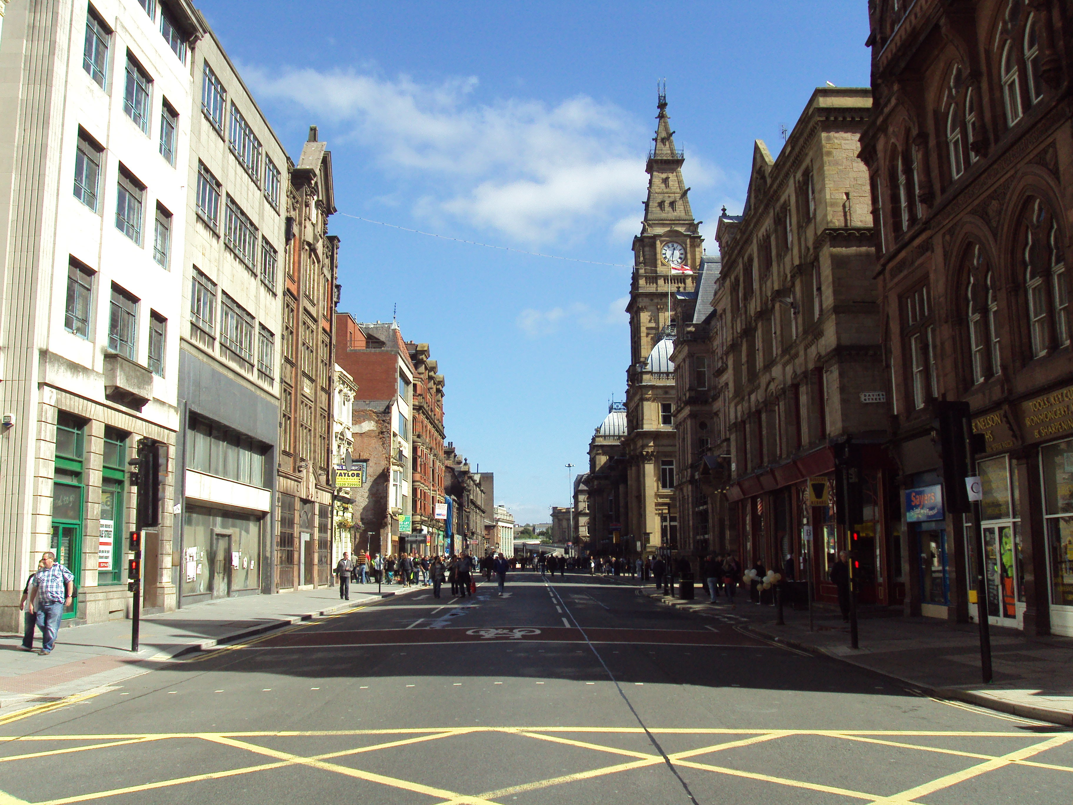 Photo of Dale Street taken during the Mathew Street Festival in Liverpool on Sunday 29th August 2010. During this time, many roads in the City Centre are closed to traffic.